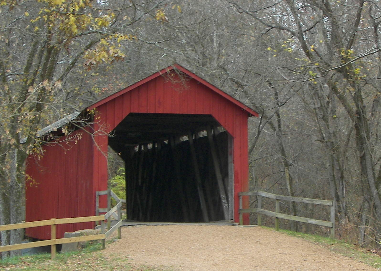 Sandy Creek Covered Bridge in Jefferson County, Missouri. Contrast and saturation have been modified, but otherwise the image is exactly as recorded by the camera.